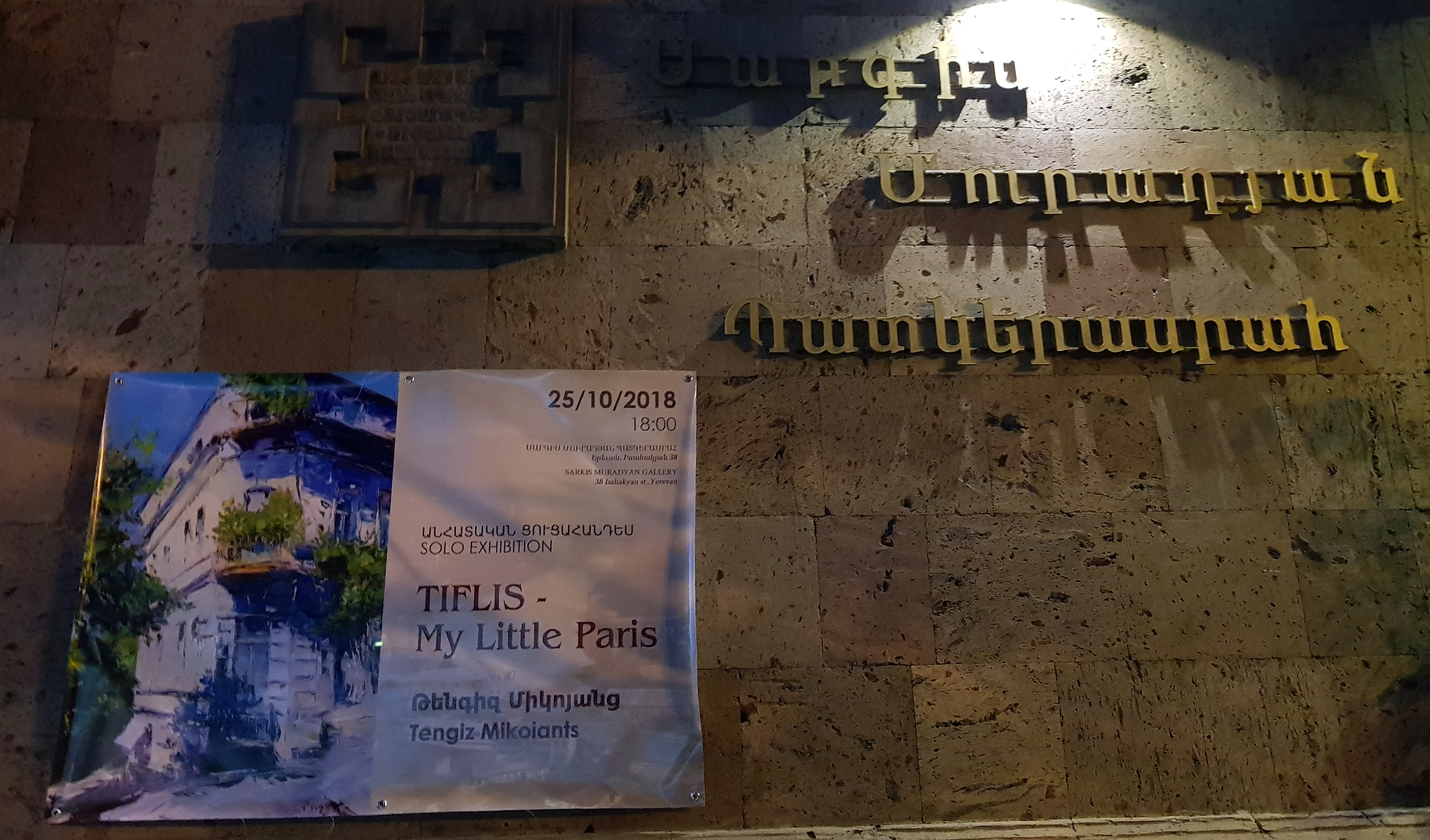 Tengiz Mikoyants' "Tiflis, my little Paris" at Sargis Muradyan Gallery exhibition